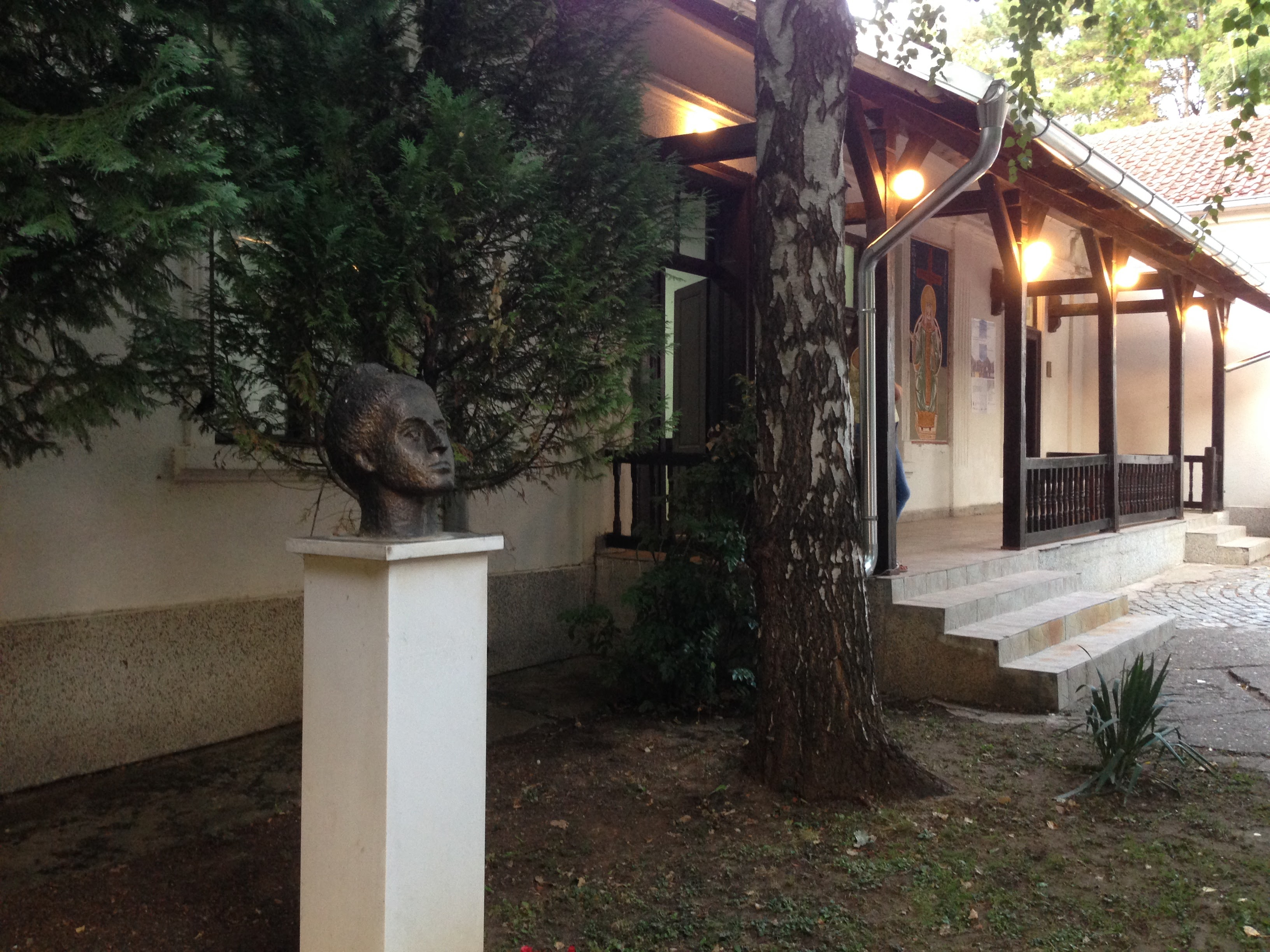 Bust Nadezda Petrovic in the courtyard of the Art Colony in Sicevo